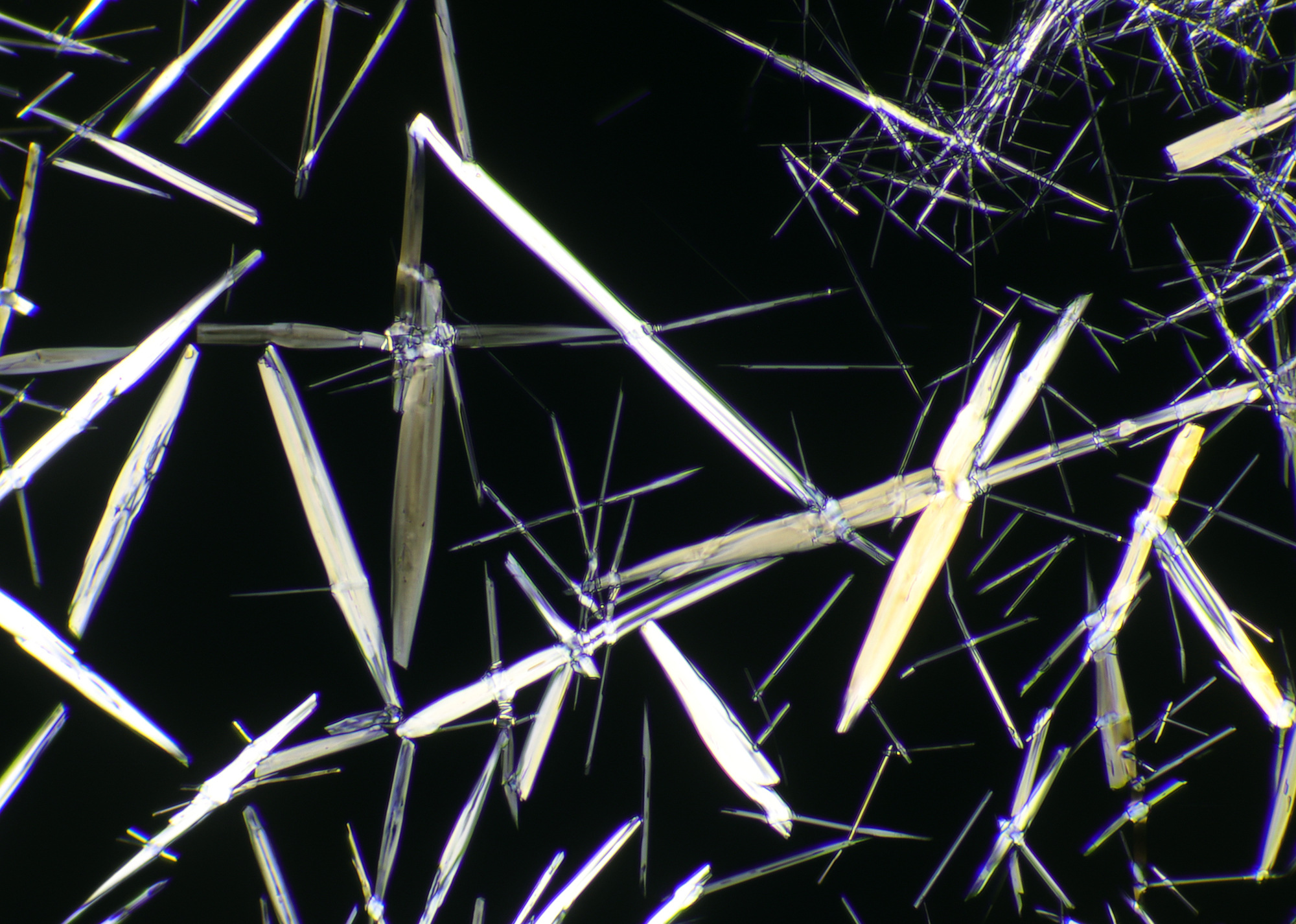 Silver nitrite, precipitated from silver nitrate solution with a grain of sodium nitrite, microscopic, polarized light, enlarged about 160 times